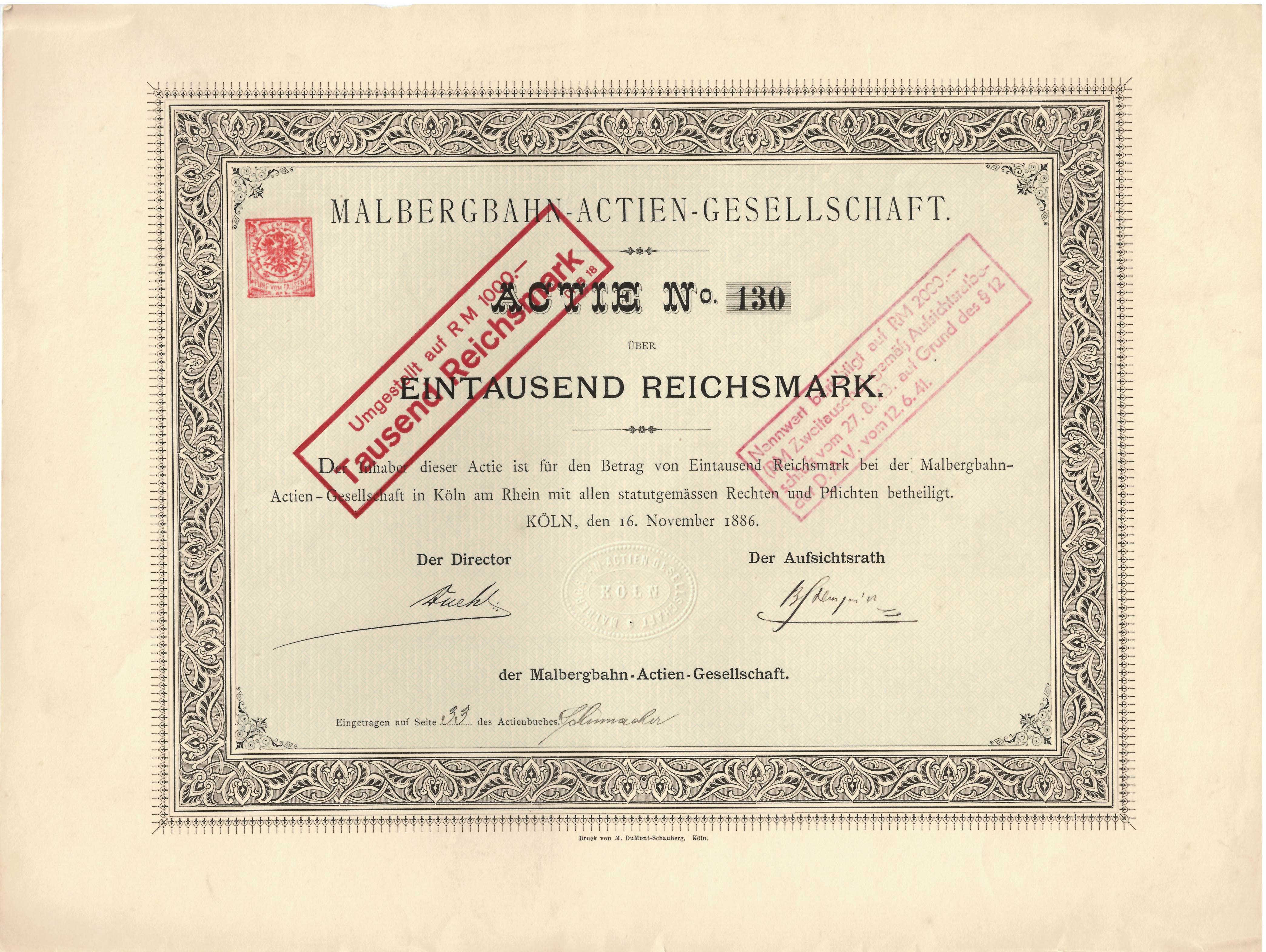 Share of the Malbergbahn AG, issued 16. November 1886